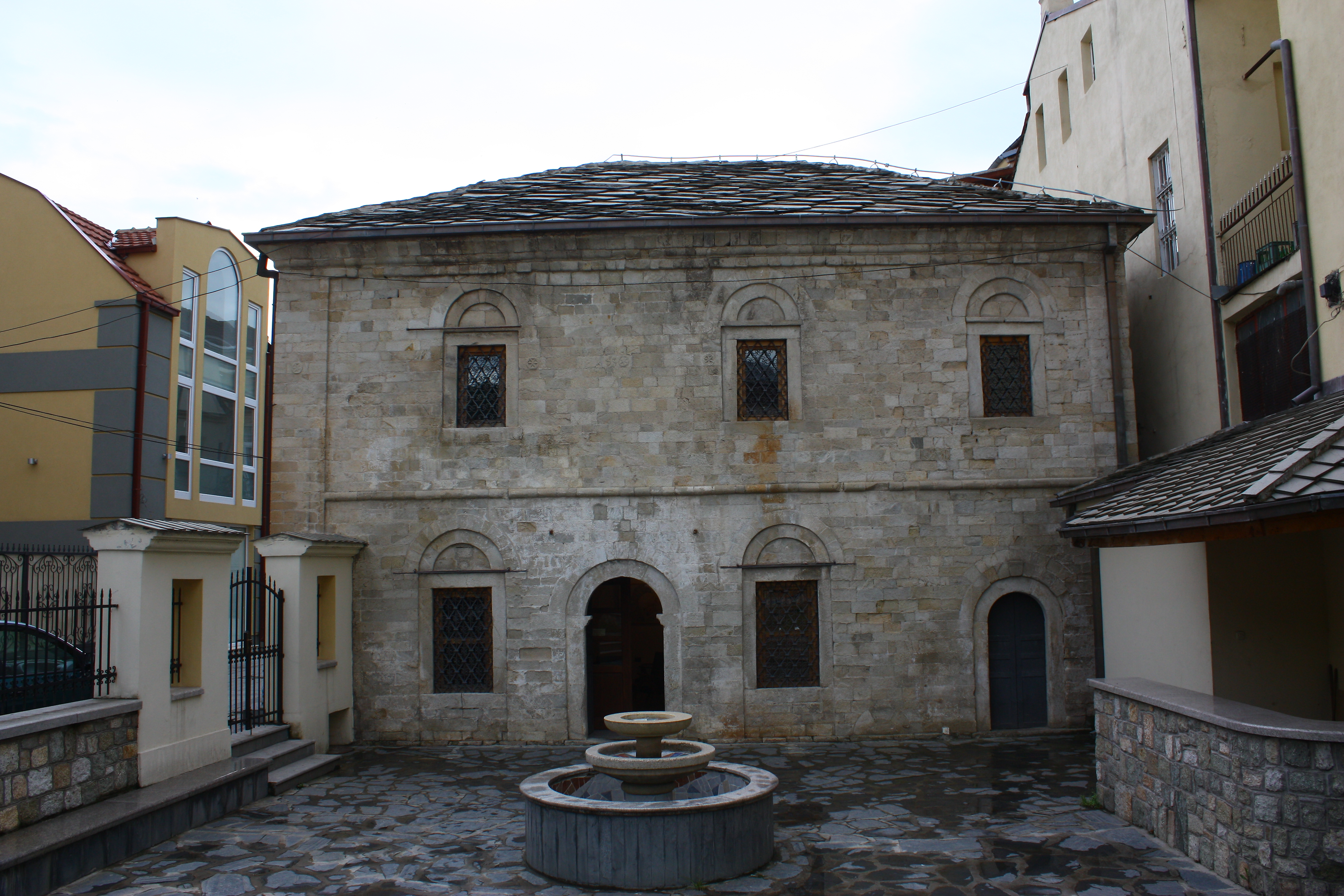 Bitola, Macedonia